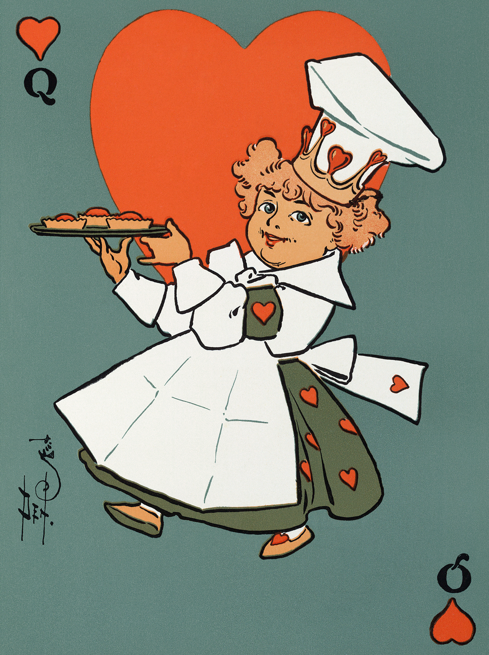 The Queen of Hearts, from a 1901 edition of Mother Goose, New York: McClure, Phillips, 1901.